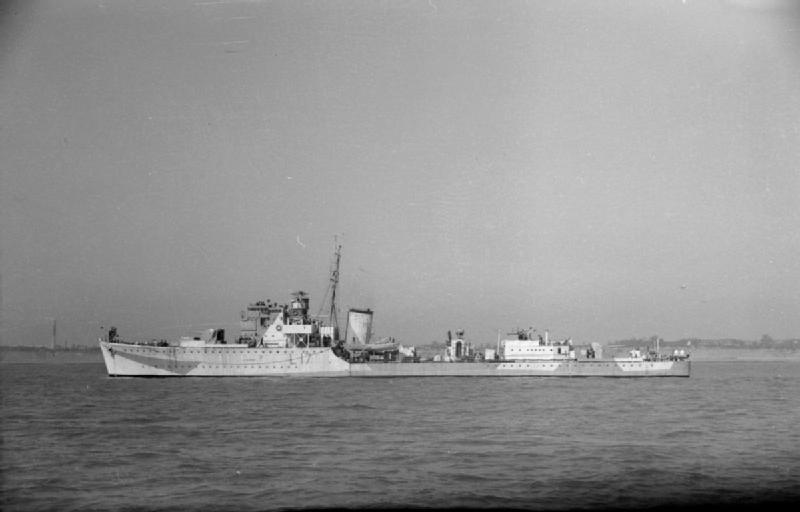 Photograph of British Hunt class destroyer HMS Berkeley.